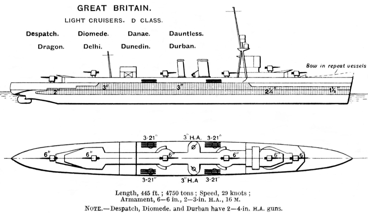 Right elevation and deck plan diagrams depicting British Danae (or D) class light cruiser. Top diagram shows armour thickness in inches; bottom diagram shows gun and torpedo calibres in inches.